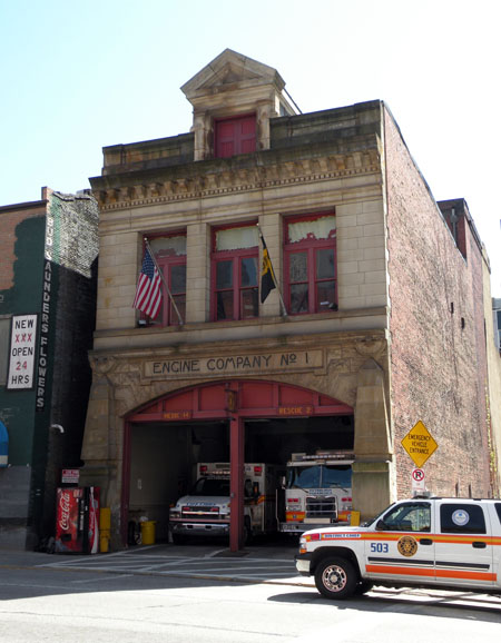 Picture of Engine Company No. 1 located at 344 Boulevard of the Allies in the Central Business District of Pittsburgh, Pennsylvania, on April 10, 2010. The other side of the building is Engine Company 30, located at 341 First Avenue, which also has two garage doors. Built around 1900, both are on the List of Pittsburgh Landmarks recognized by the Pittsburgh History and Landmarks Foundation (PHLF). Architect: William Y. Brady. Architectural style: The Boulevard of the Allies facade is Beaux Arts and Classical in design, and the First Avenue facade mixes the Romanesque and the Classical.